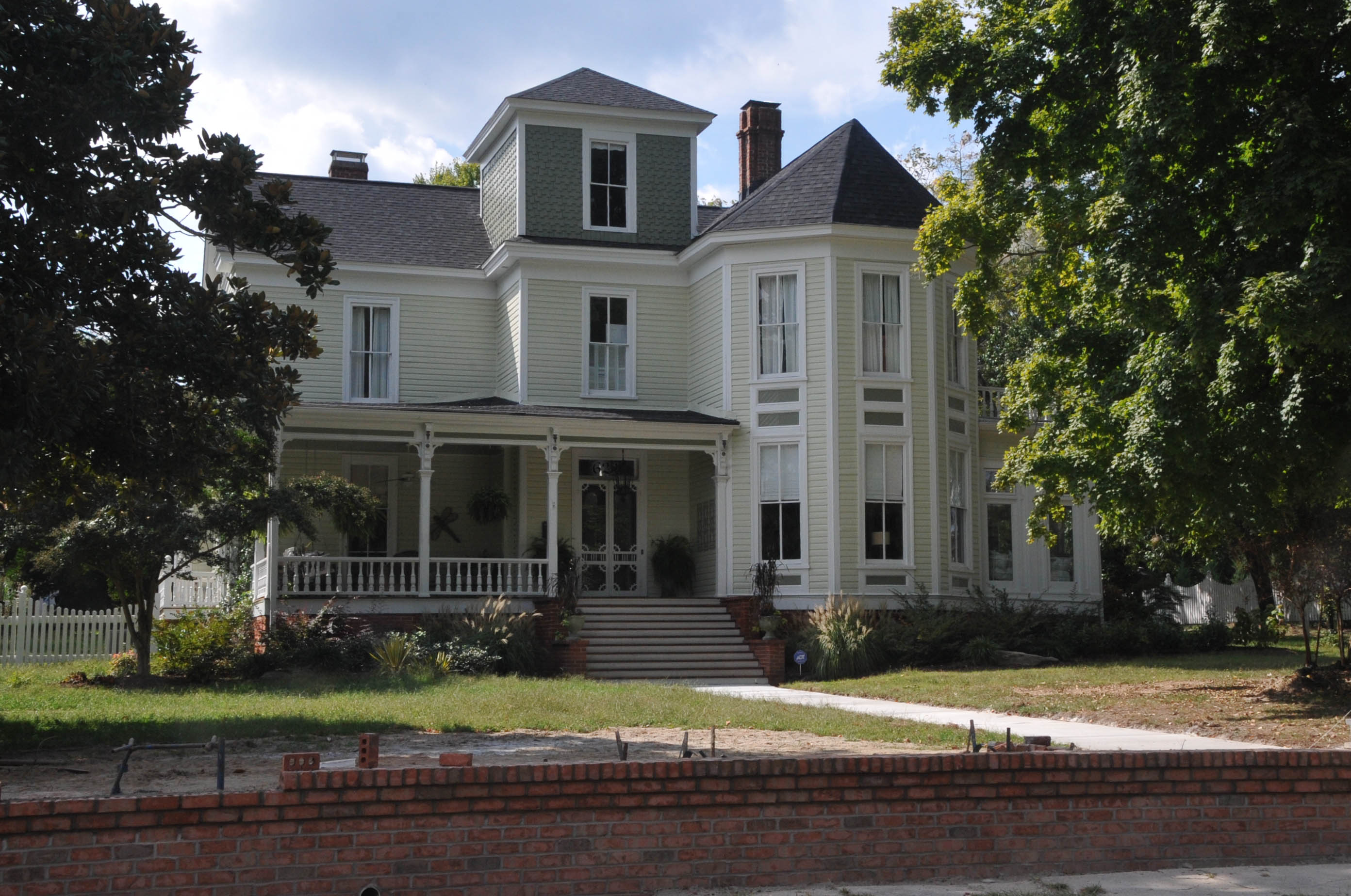 NICHOLSON-BICKETT-TAYLOR HOUSE - CIRCA 1897; ITALIANATE AND QUEEN ANNE; THOMAS BICKETT WAS GOVERNOR FROM 1917-1921